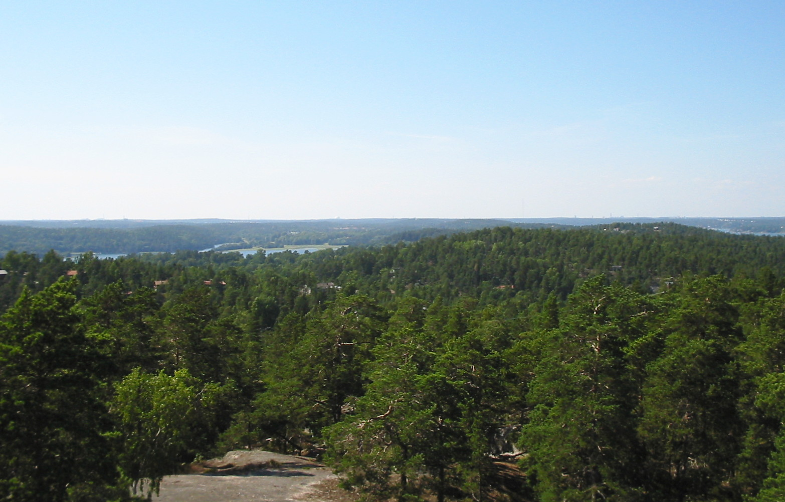 View from the top of the watchtower on top of Telegrafberget, Tyresö, Sweden, with a view towards Stockholm. The Stockholm Globe Arena can be seen on the horizon, slightly left of center of image. The body of water seen on the left is Kalvfjärden, and the body of water barely visible on the far right is Erstaviken.